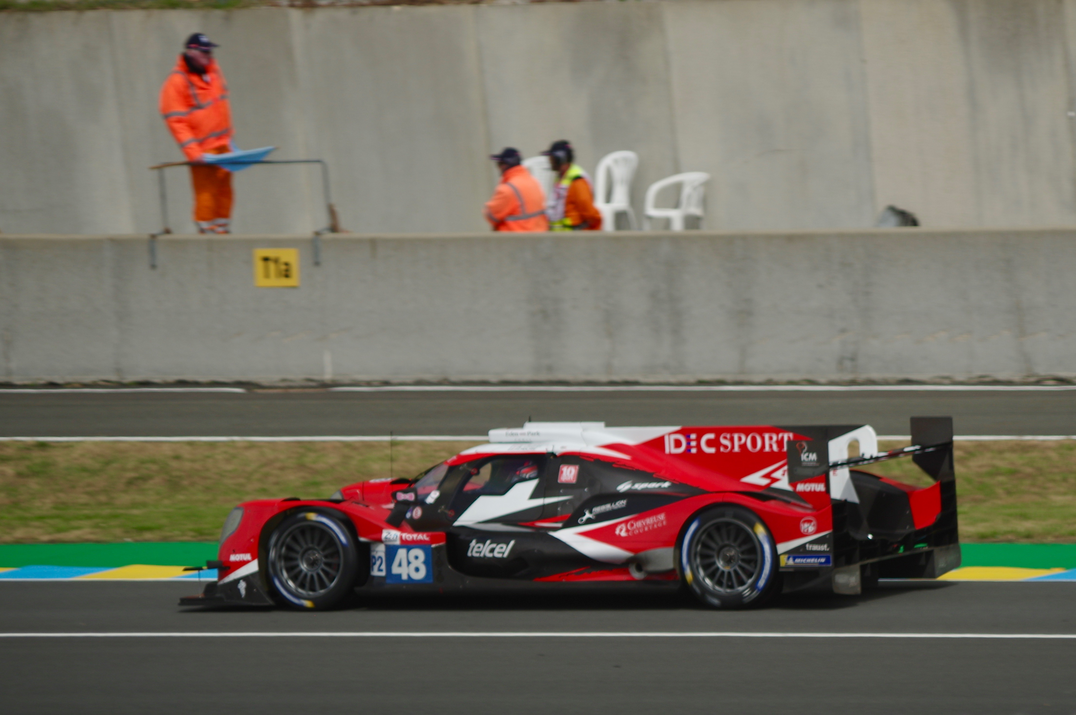 IDEC Sport Racing's Oreca 07-Gibson n°26 driven by Paul-Loup Chatin, Paul Lafargue and Memo Rojas at the 2019 24 Hours of Le Mans